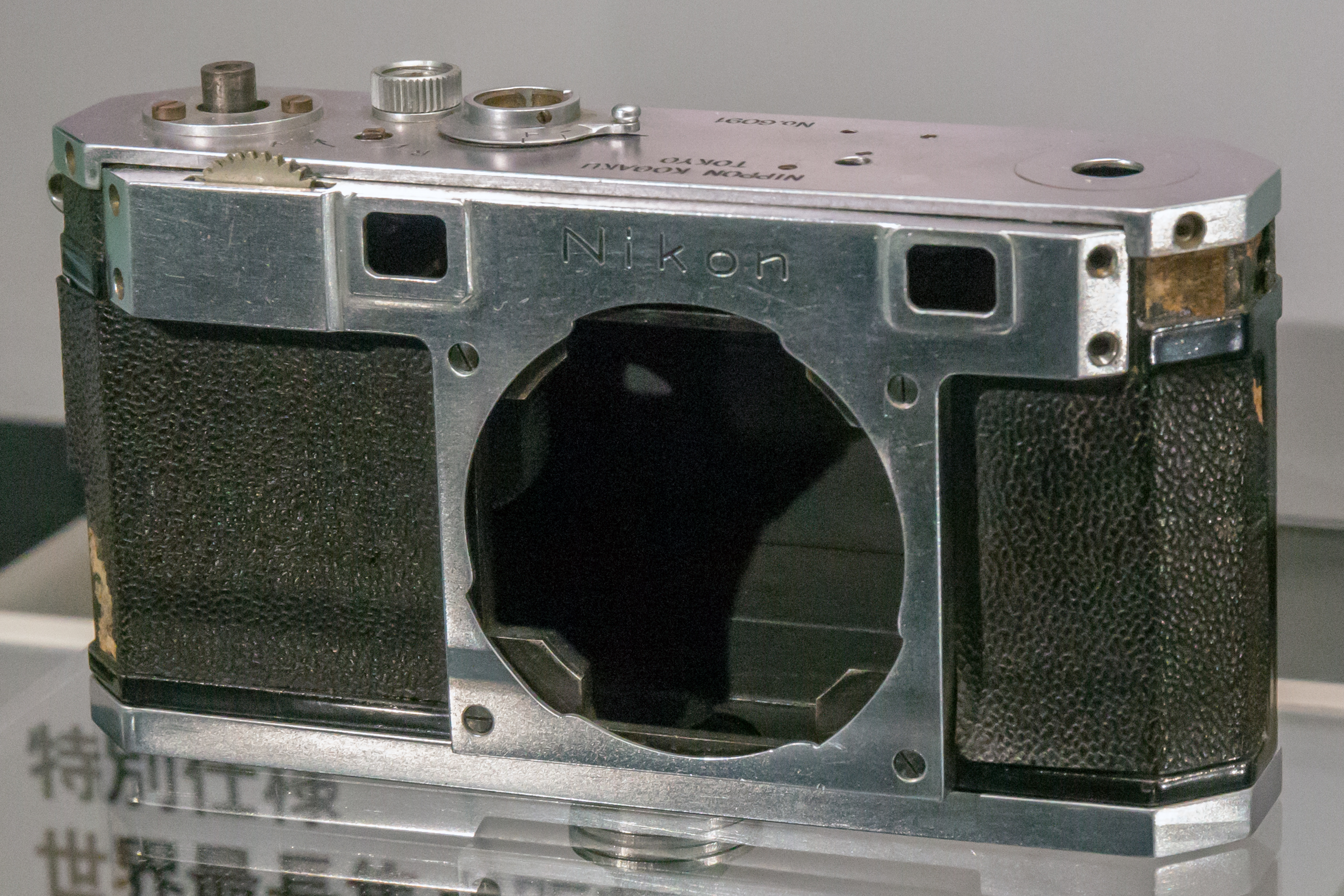 1947 Nikon Model I Prototype I, No.6091; Only 20 units of the Nikon Model I prototypes (No.6091-60920) were manufactured in 1947. The No.6091 is one of the prototypes.